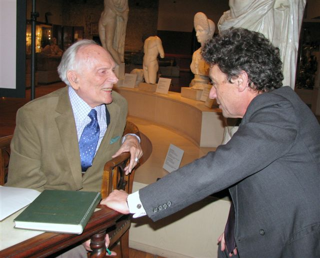 Zdzisław Żygulski jr. (August 18, 1921 in Borysław - May 14, 2015) - Polish art historian and essayist and Adam Zamoyski (b. 1949) - Polish historian and a member of the ancient Zamoyski family of Polish nobility.